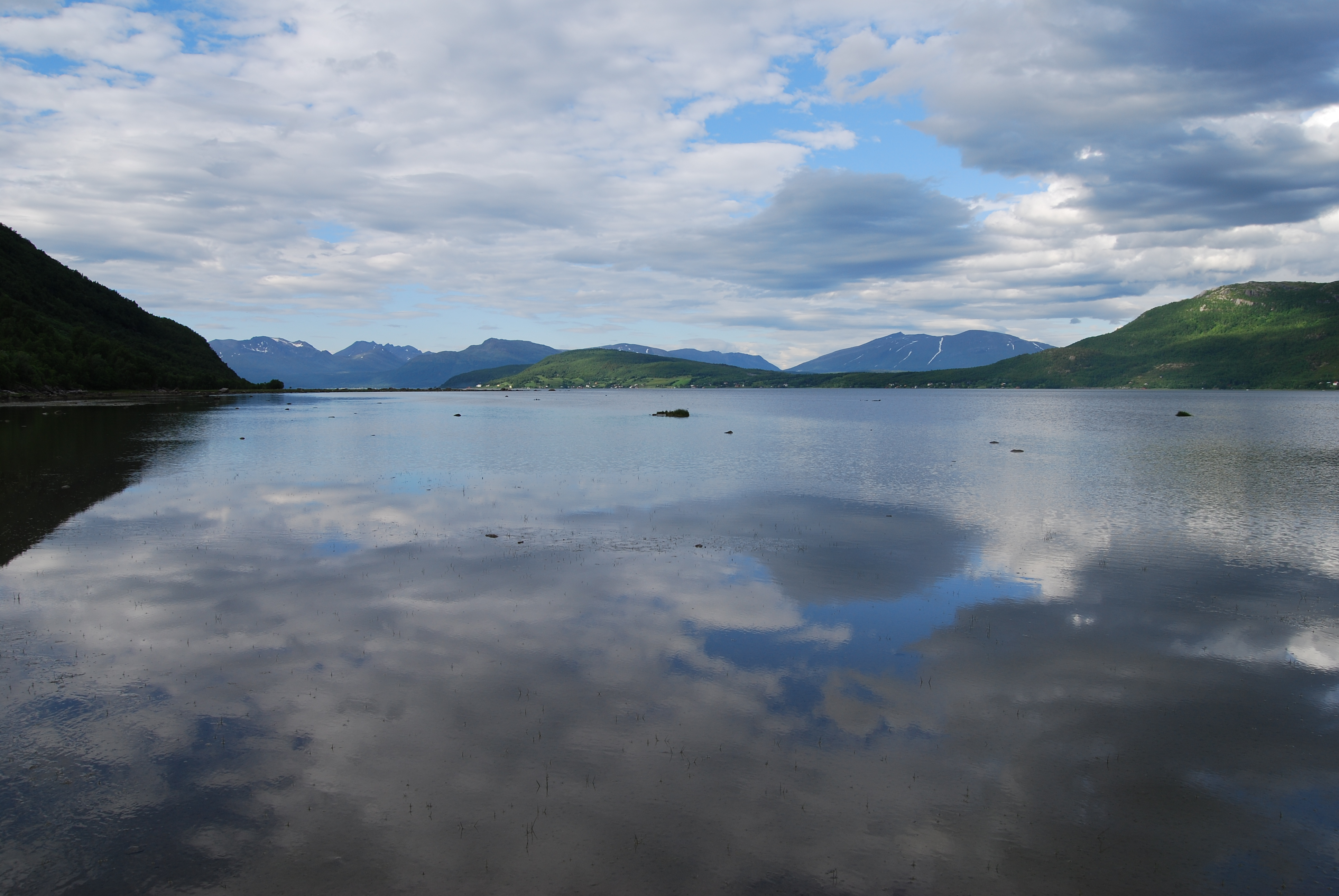 Målselvfjorden, Målselv municipitaly, Norway